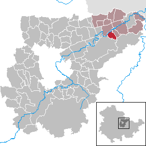 Flurstedt in Thuringia - District Weimarer Land